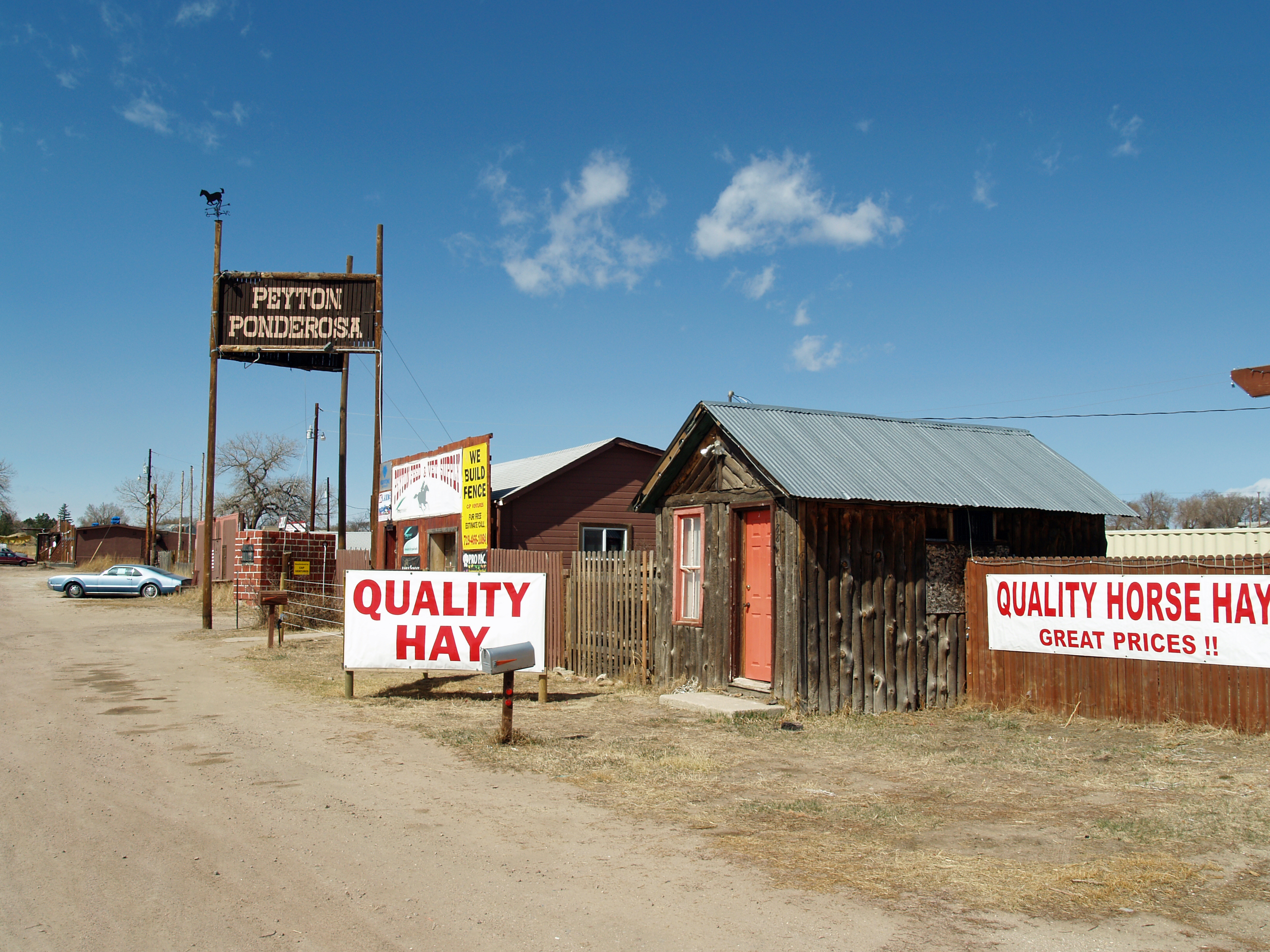 Peyton, Colorado businesses.